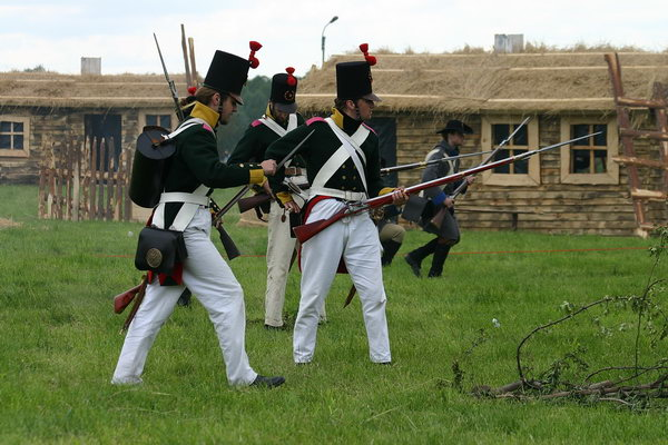 Reconstruction(2006) of Battle of Raszyn(1809)